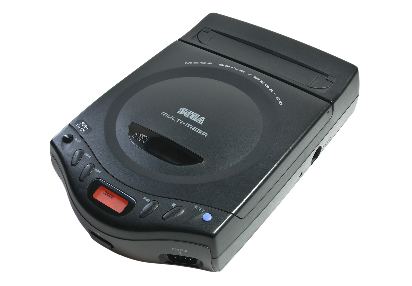 Sega Multi Mega game console (1994) Details: 5 sec. Focal Length: 2.4mm Aperture: F/16 ISO: 100 Photographer: Bill Bertram